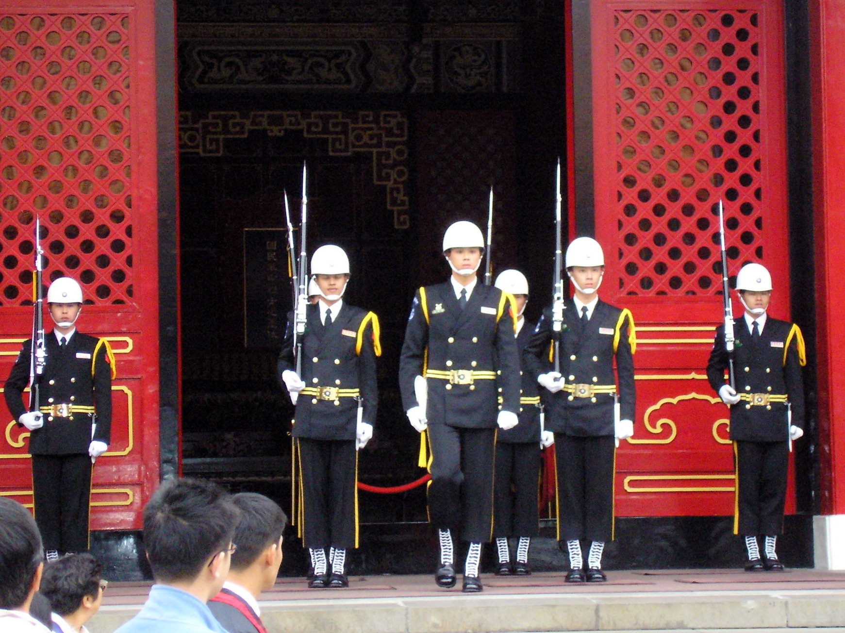 Honor Guard of the Republic of China Navy at the changing of the guard ceremony at National Revolutionary Martyr's Shrine.